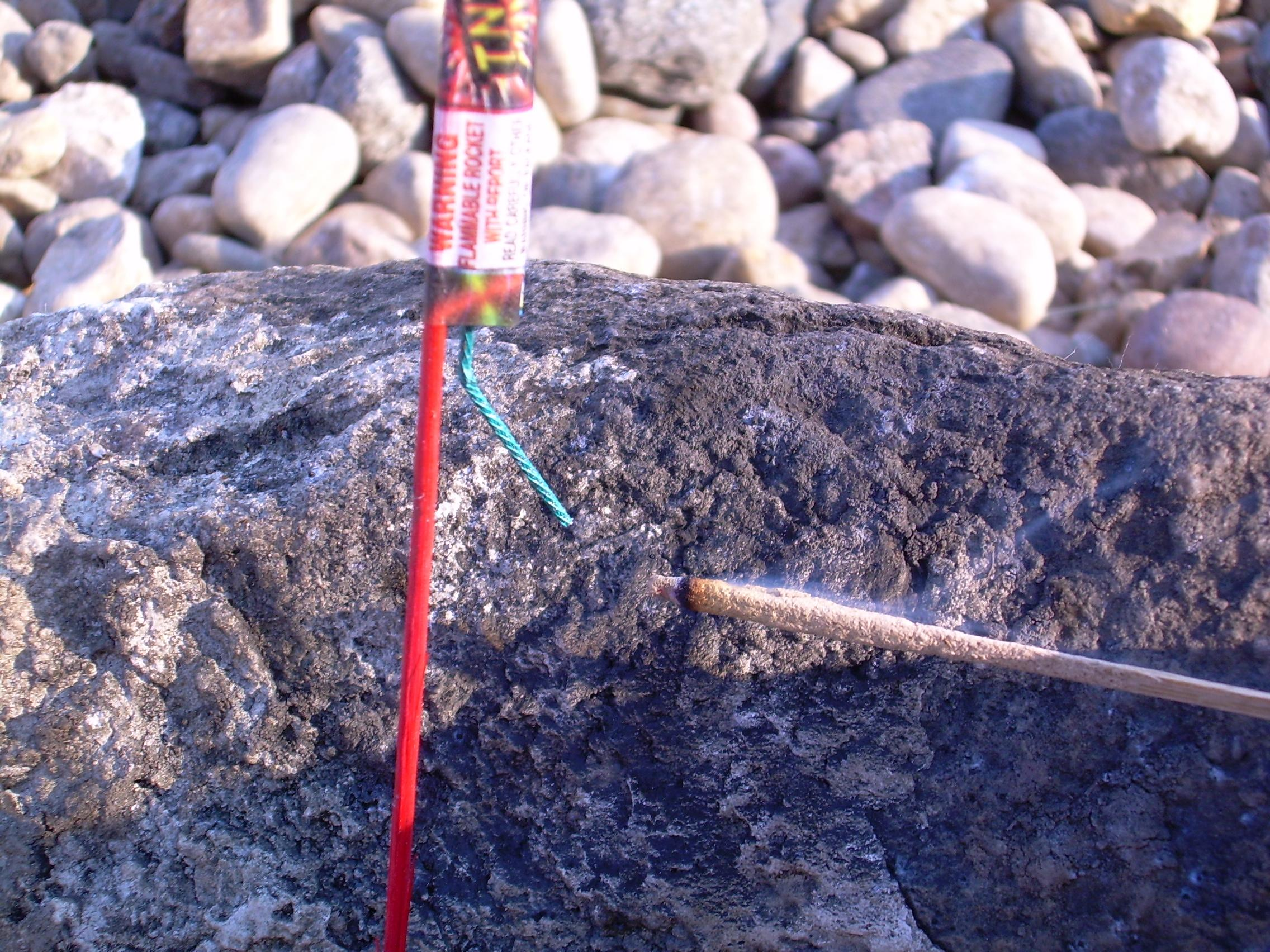 By using the hot end of the punk to touch the tip of the fuse (the green stick coming out of the rocket), consumer fireworks can be lit in a safe way. Photographed by Nick Smith (aka ulillillia)